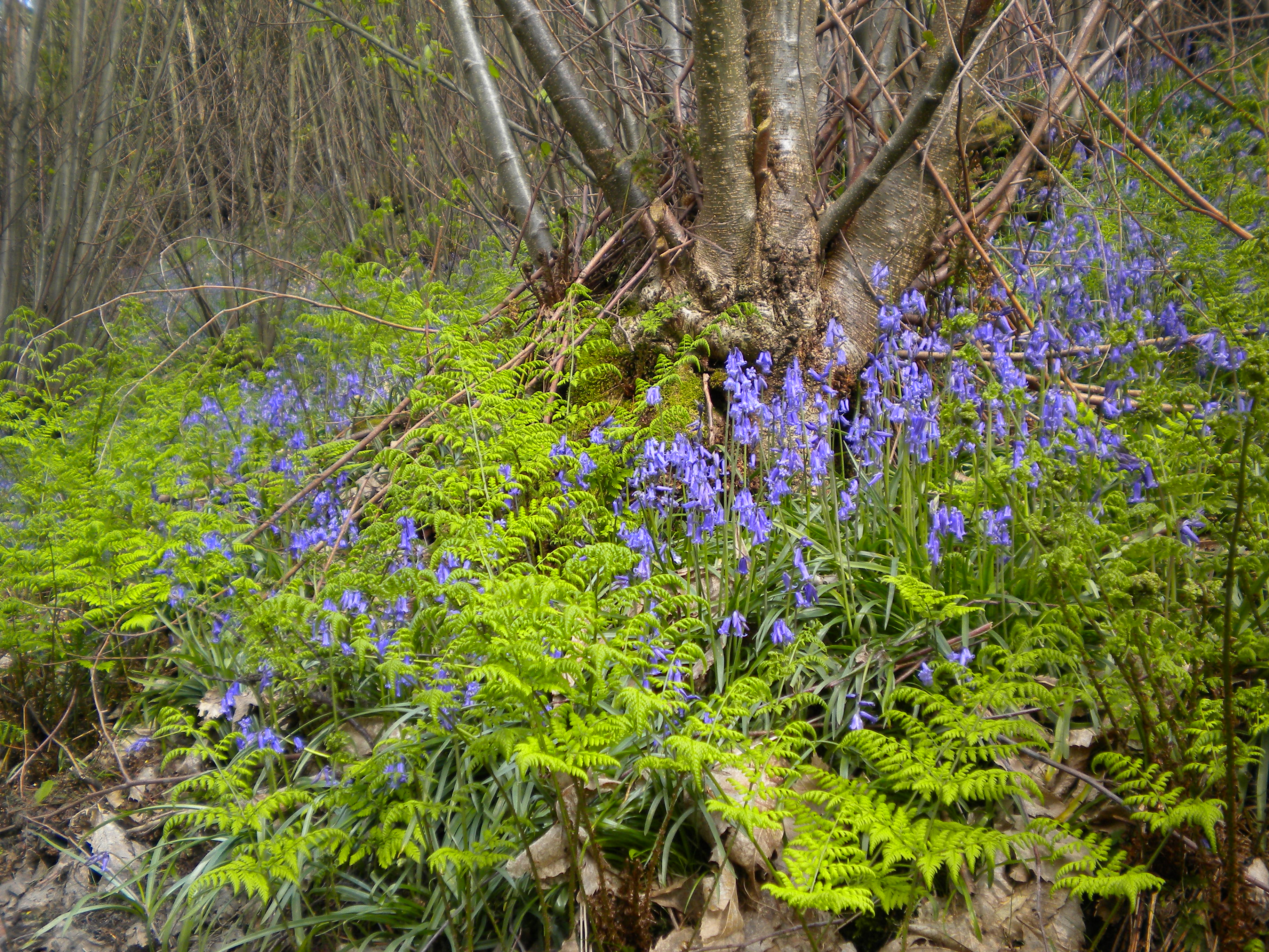 Bluebells and ferns around a Sweet Chestnut coppice stool at Flexham Park, Bedham near Petworth, West Sussex, England.